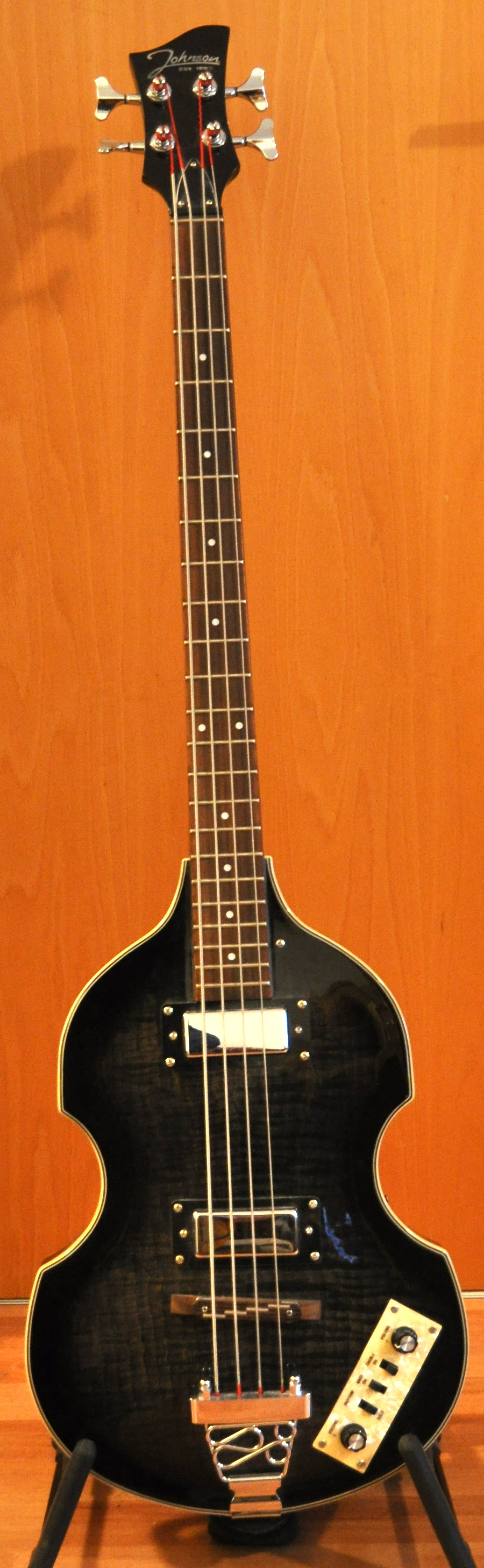 Johnson Beatles bass